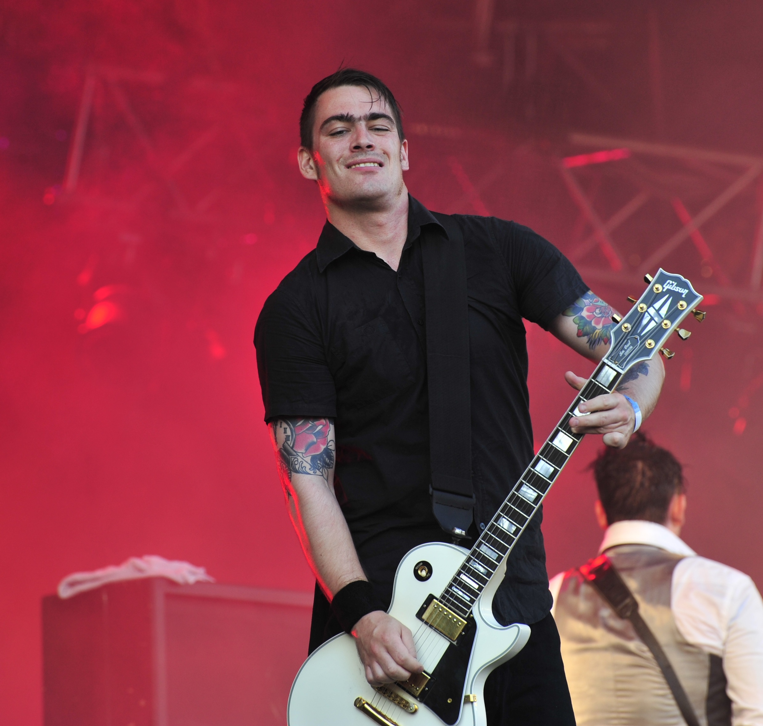 Volbeat guitarist Thomas Bredahl live at Roskilde Festival 2009